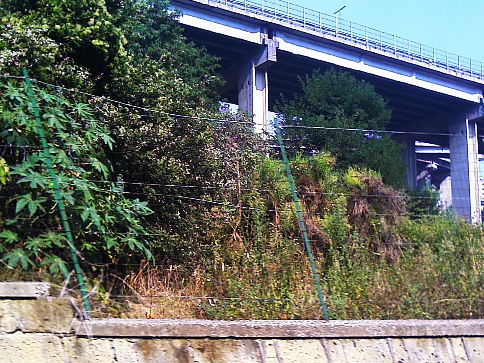 Arena Sant'antonio viaduct